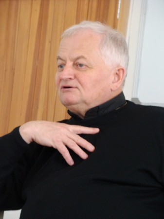 Karel Herbst, auxiliary bishop from Prag